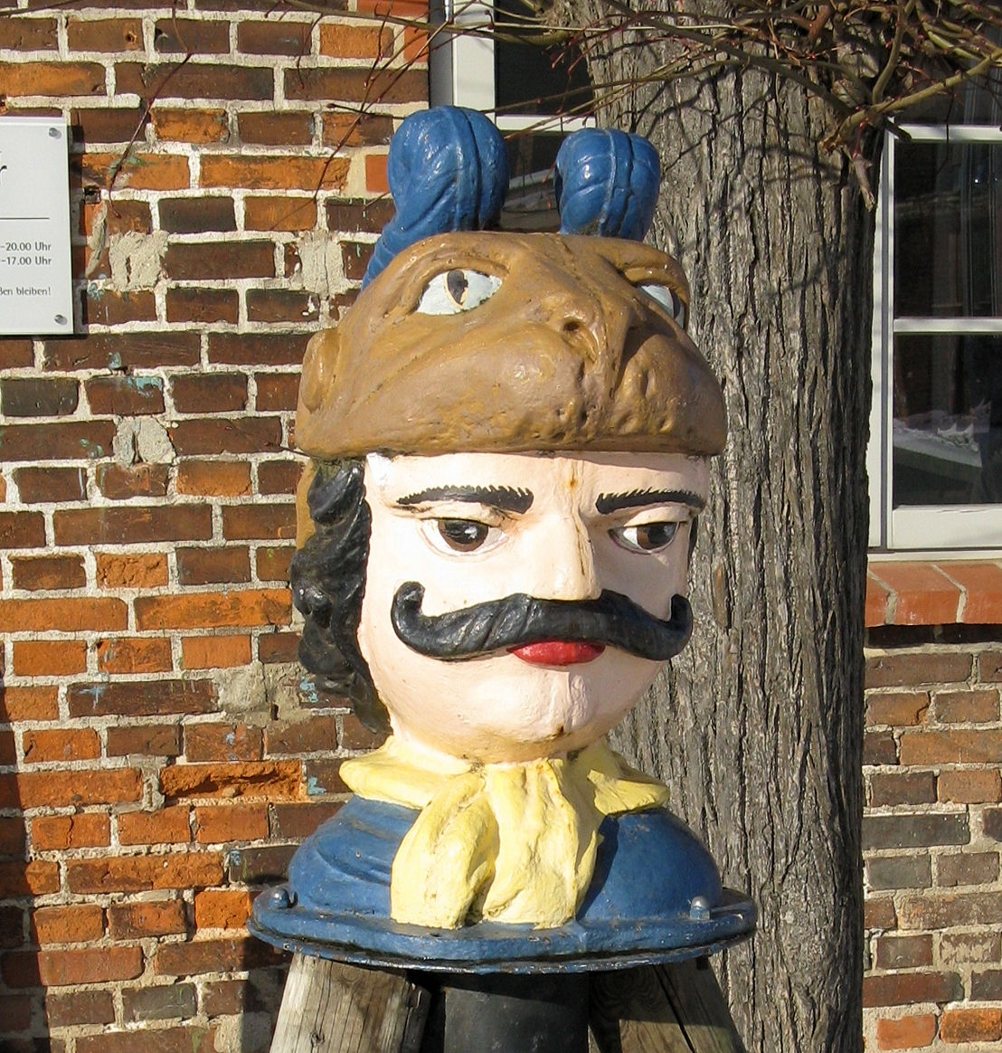 Swedish head in front of the entry of the building Baumhaus in Wismar, Mecklenburg-Vorpommern, Germany